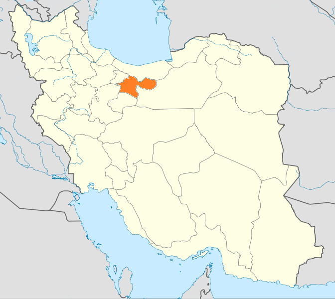 Locator map of Iran